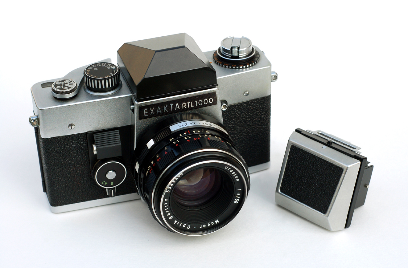 The Exakta RTL 1000 is a single-lens reflex camera, made in Germany circa 1970. Viewfinders are interchangeable, and this example is shown with the prism finder in place, and the waist-level finder alongside. Some might consider this model the black sheep of the Exakta family, but I actually used this camera in 1979 as a 15-year-old novice and managed to get amazing results. It's really fascinating to read about Ihagee cameras, and there's an abundance of information available on the web.